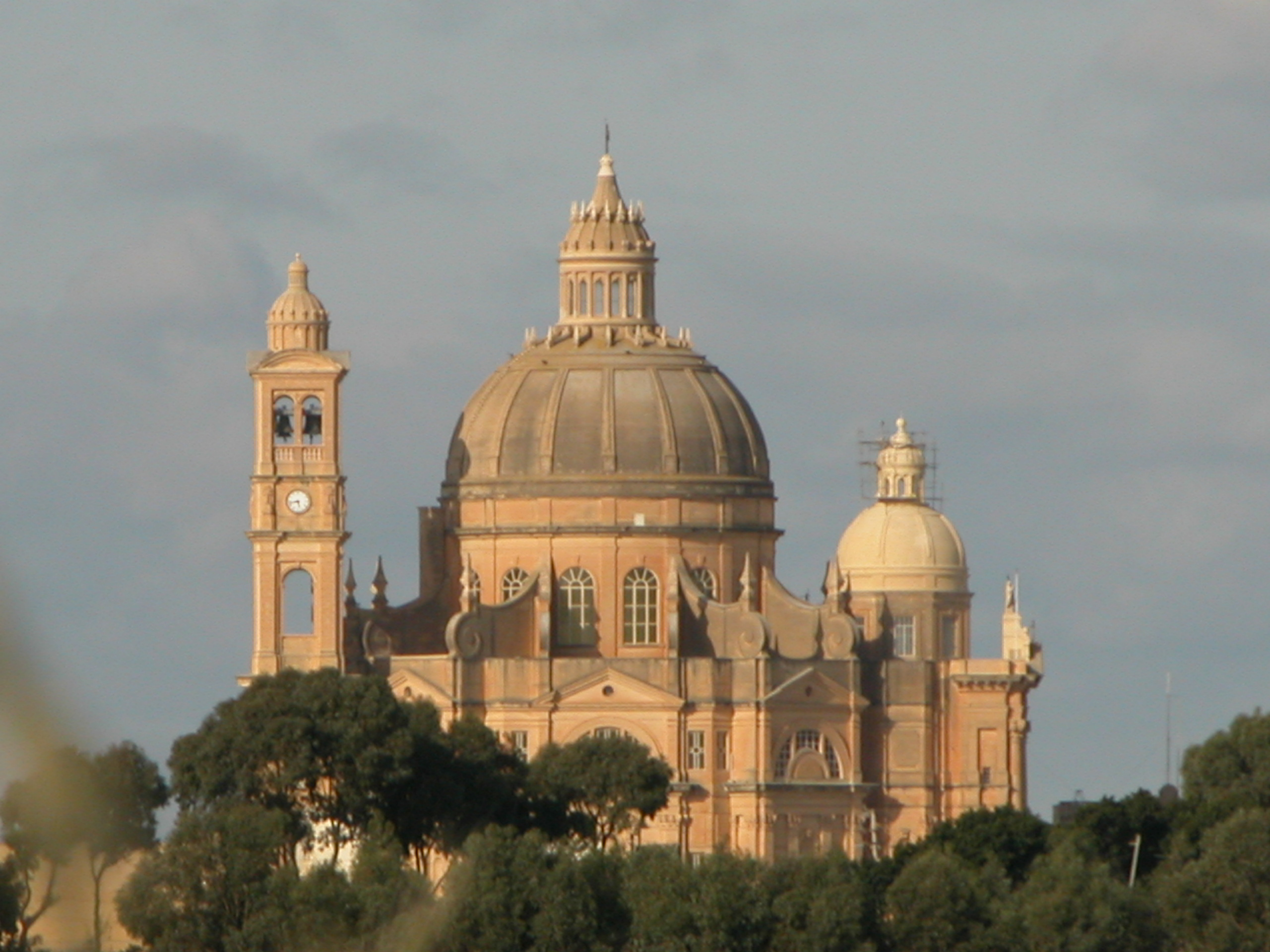 Claudio Vella, Rotunda Church of Xewkija - February 2007